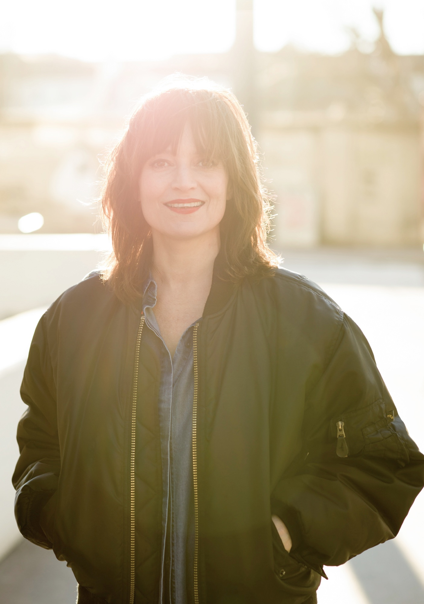 Ela Angerer